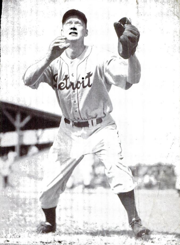 An image of Major League Baseball outfielder Hoot Evers.